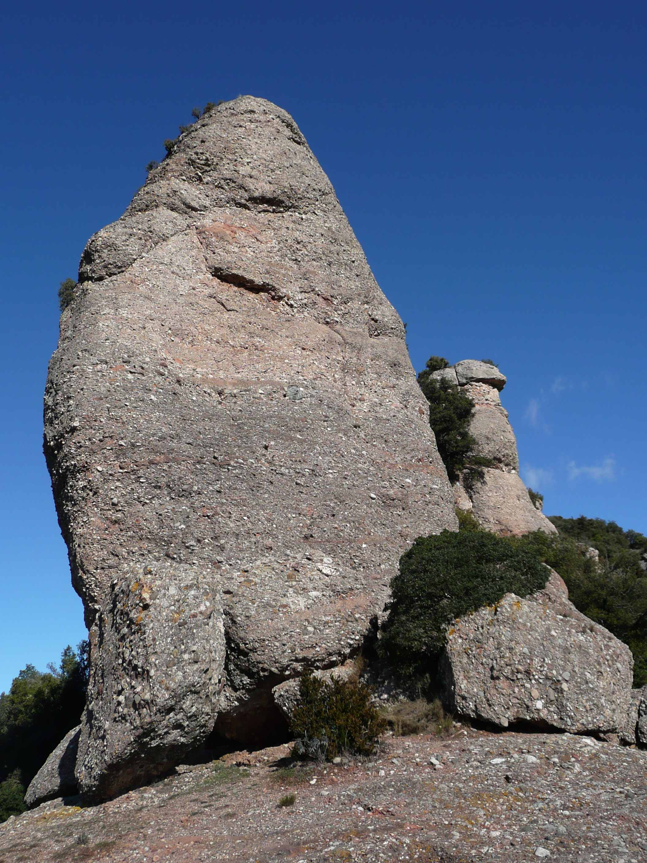 Rocky monolith. L'Obac mountain range. Sant Llorenç del Munt i l'Obac natural park, Barcelona, Spain.